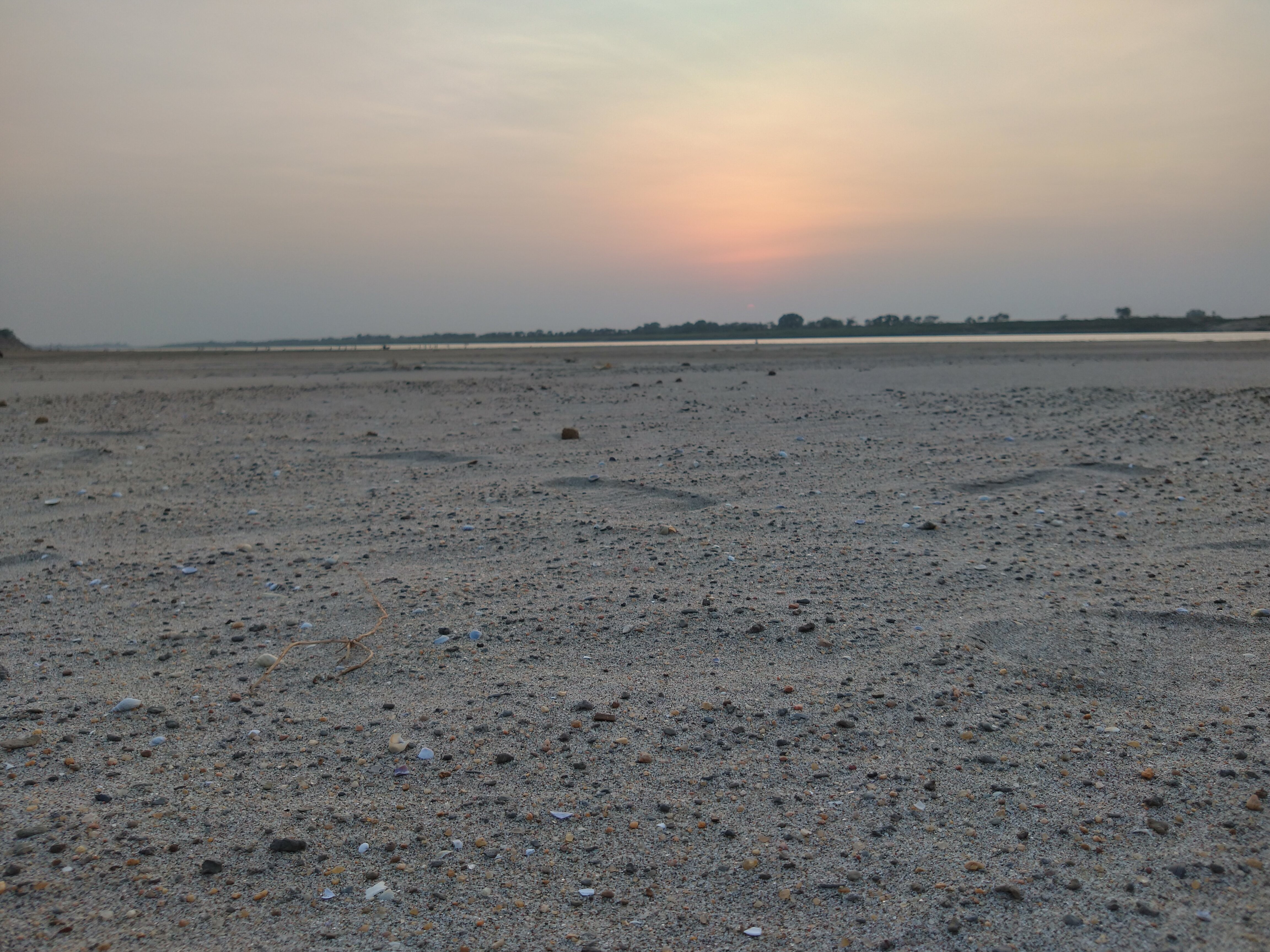 This photo taken at Ganaga River Bank - In Village Bara - Dildar Nagar -Ghazipur